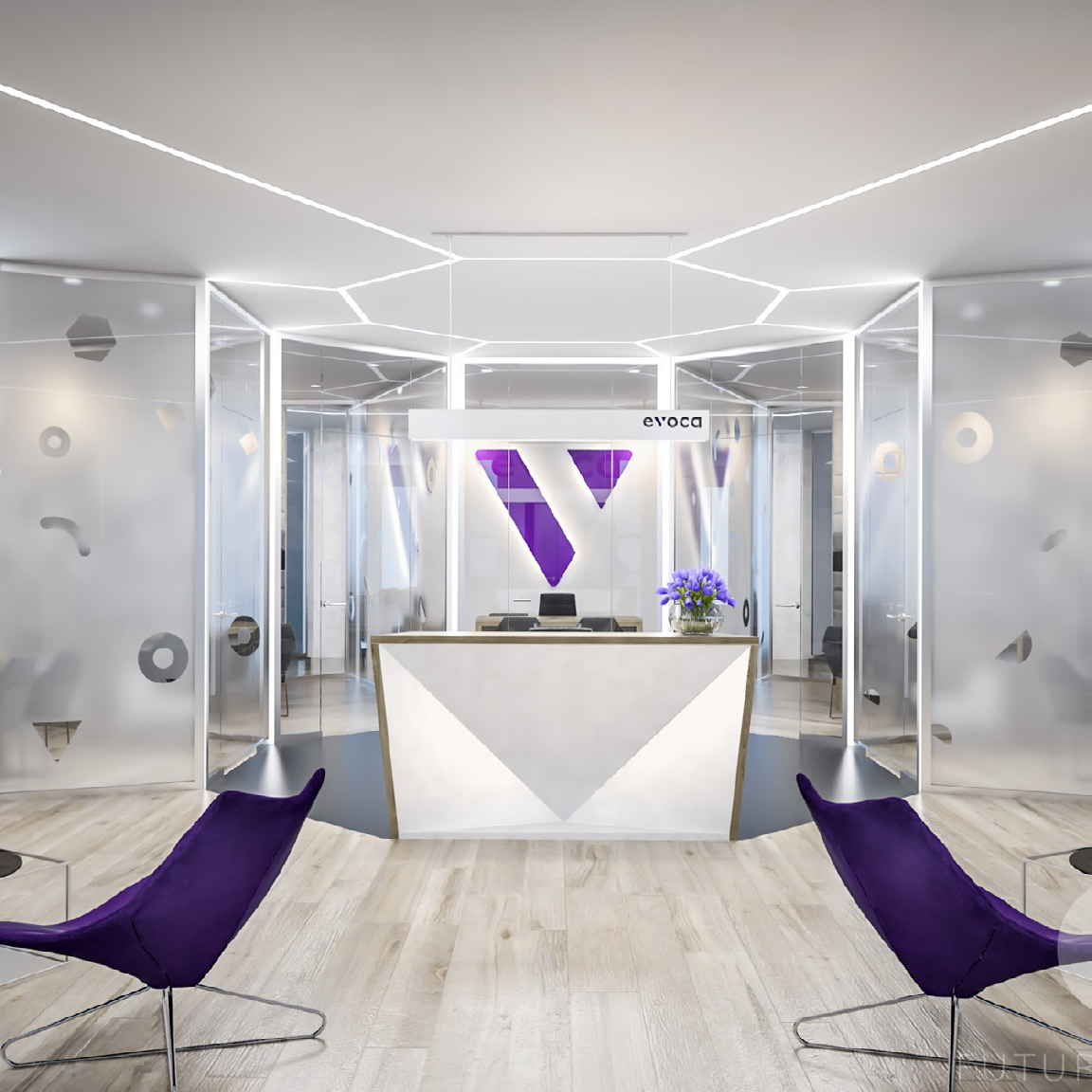 Evocabank continuously improves its services, making lives of people more comfortable.